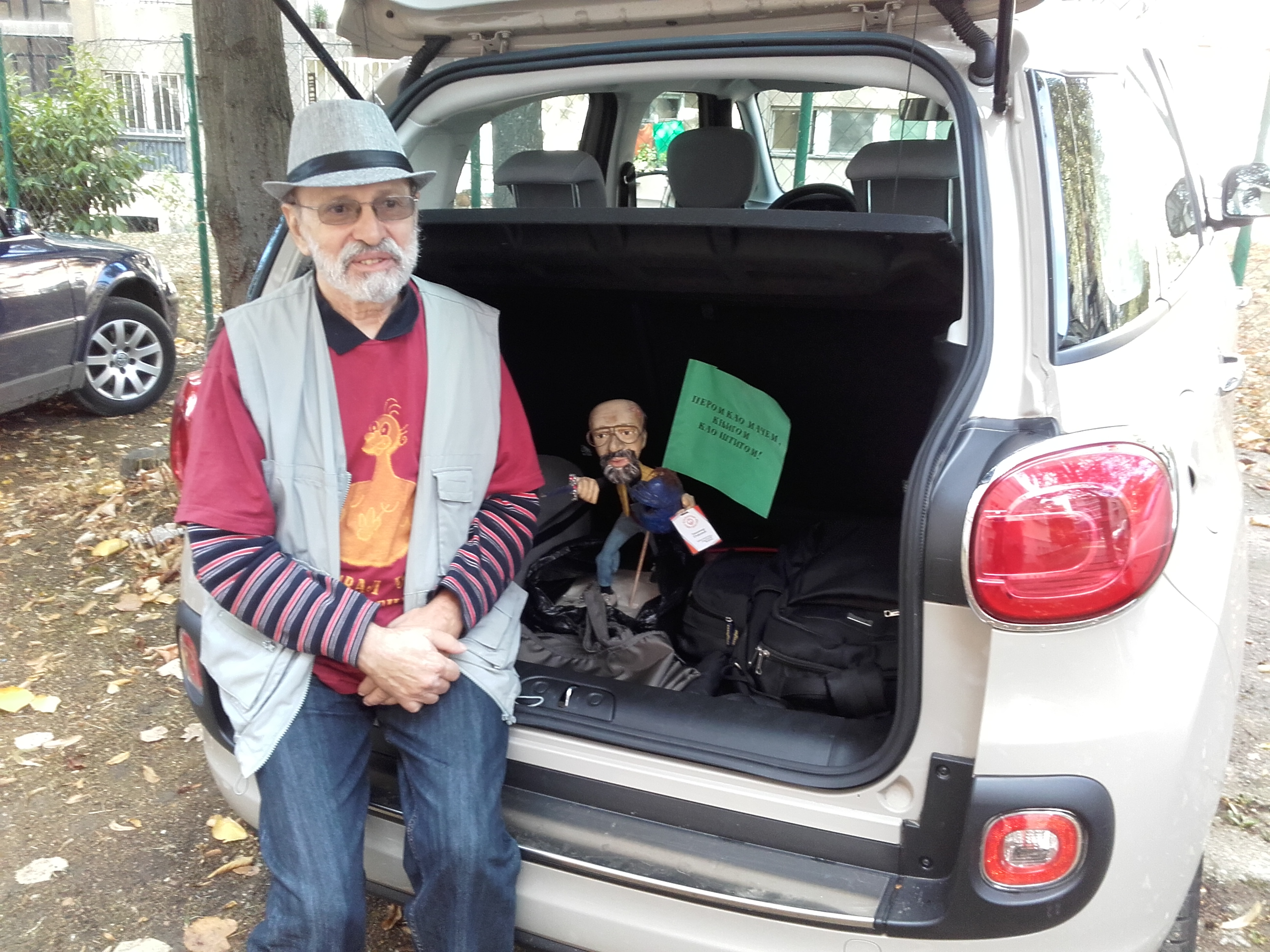 Gradimir Grada Stojković Srpski (latinica): Градимир Града Стојковић